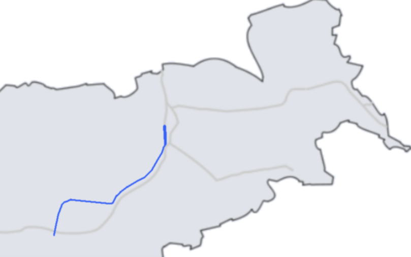 Map of the slovenian H2